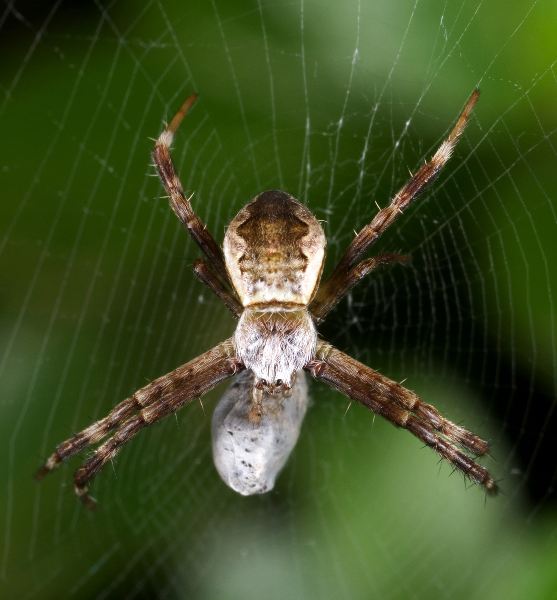 Argiope minuta, with an egg case roughly 6-12mm in length.